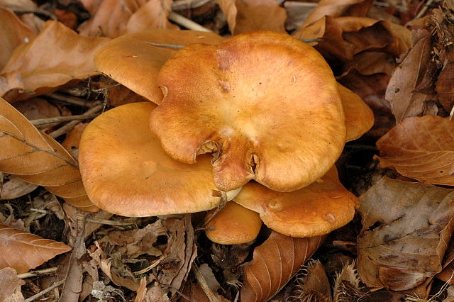 Tricholoma sejunctum from Commanster, Belgium. If you think this is a different taxon, please contact James Lindsey.